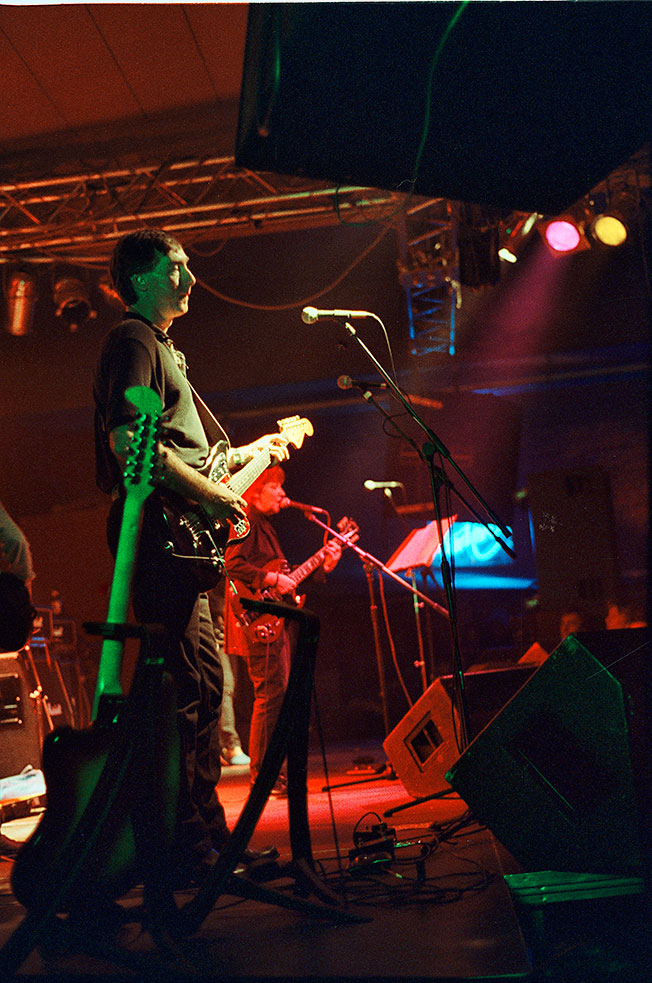 The Moe Tucker Band and Sterling Morrison, Augsburg, Germany, September 1992